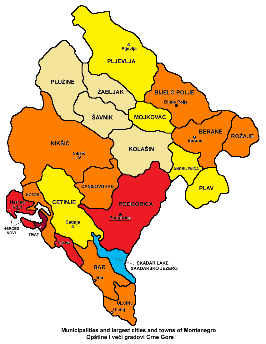 Montenegro population density 2011